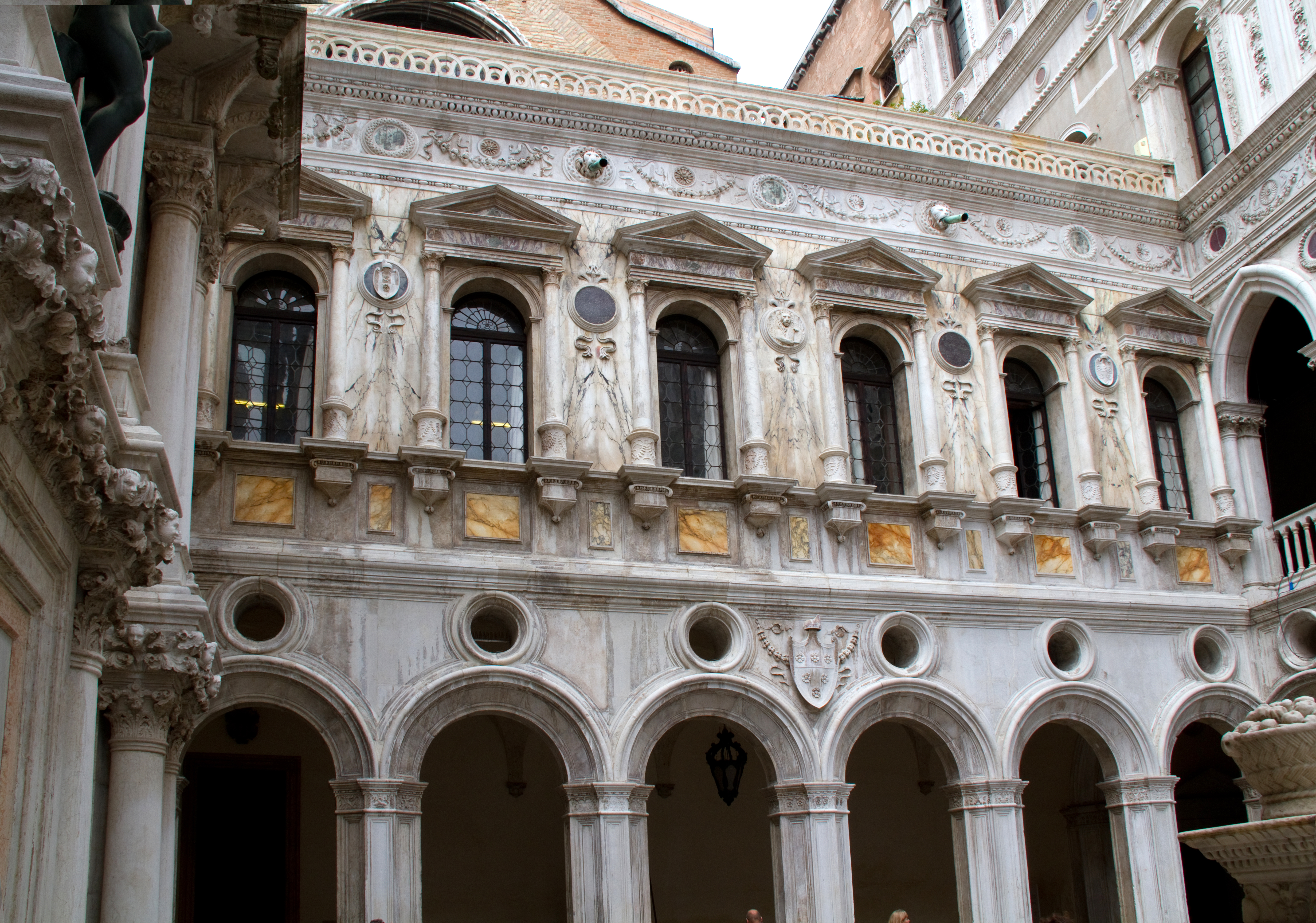 Doge's Palace 11